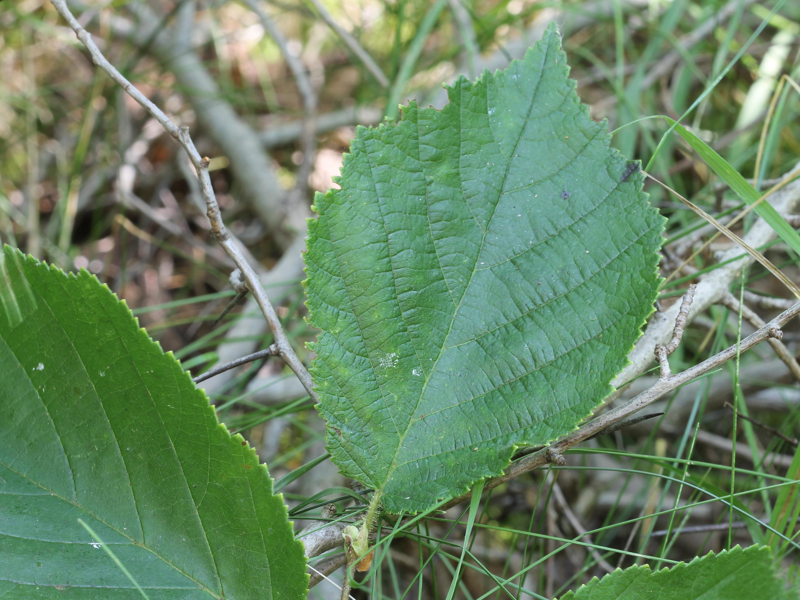 Corylus americana Walt. - American hazelnut. Image location: University of Guelph Arboretum, Guelph, Ontario, Canada